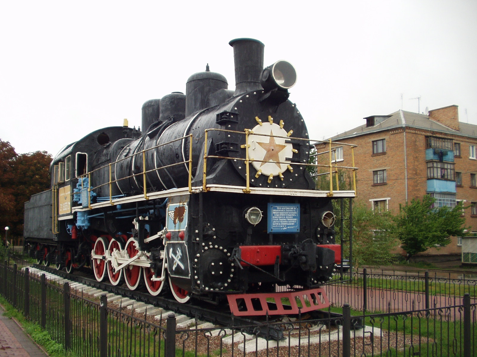 Historical train next to train station